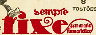 Sempre Fixe Weekly Humor Magazine